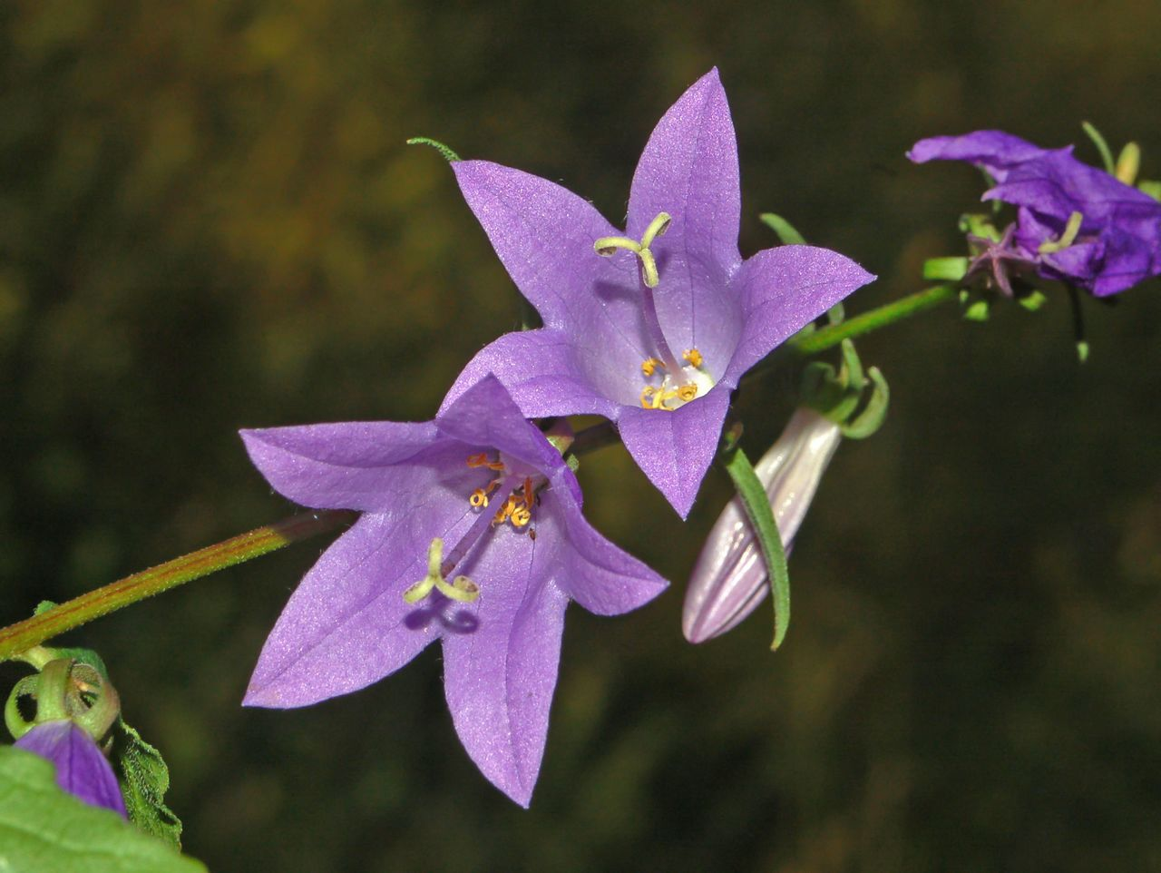 Campanula rapunculoides - Pragelato, Torino, Italy